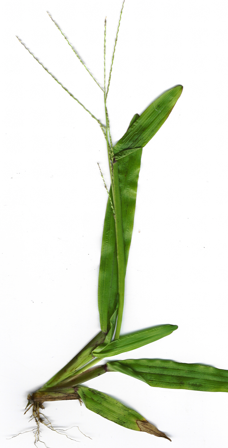 Axonopus compressus (plant). Location: Maui, Makawao